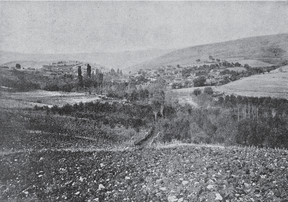 Vladimirovo in the begining of 20 c.